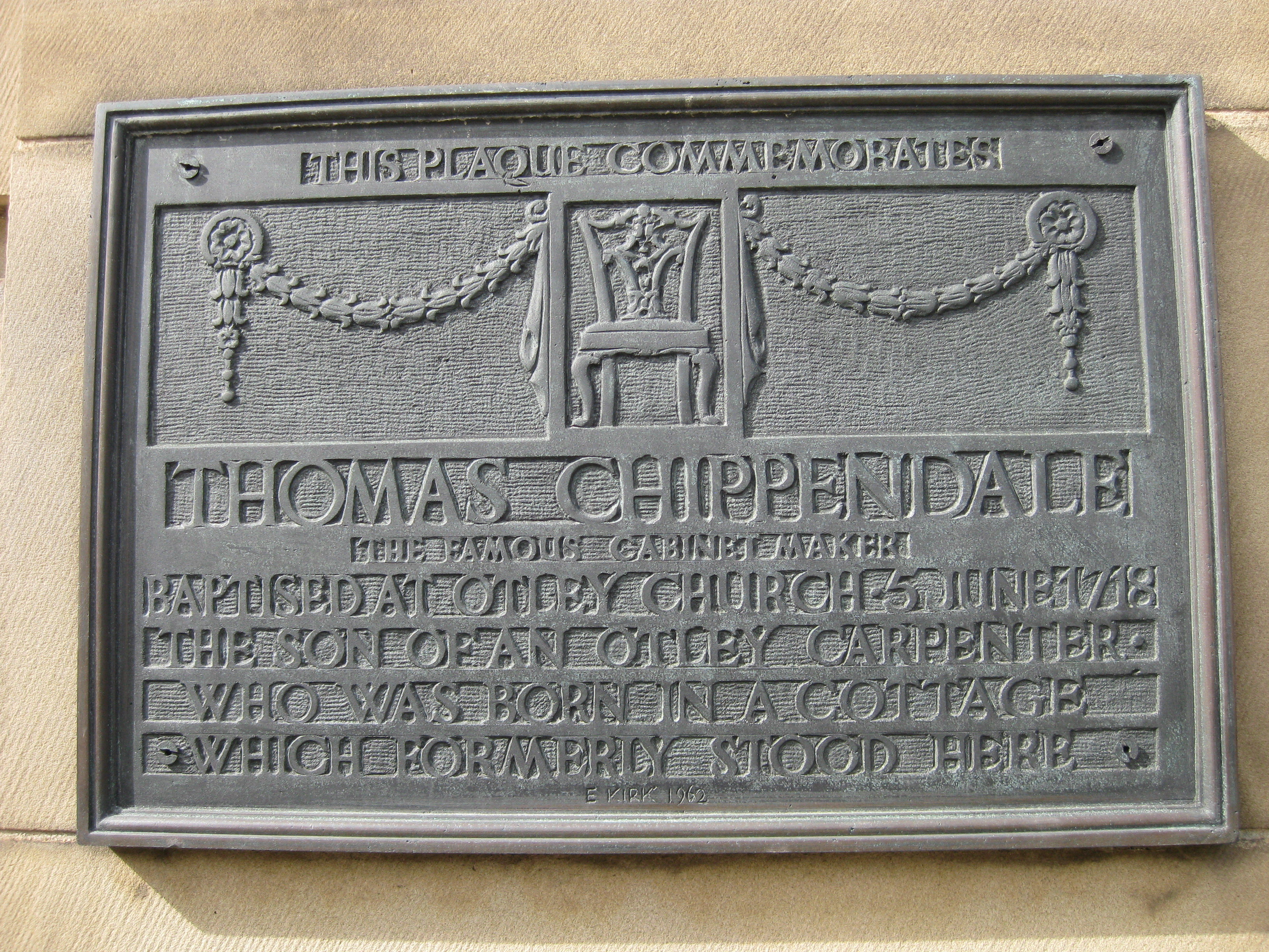 Plaque on Boroughgate, Otley by the junction with Wesley Street, stating that Thomas Chippendale was born in a cottage which formerly stood on that site.